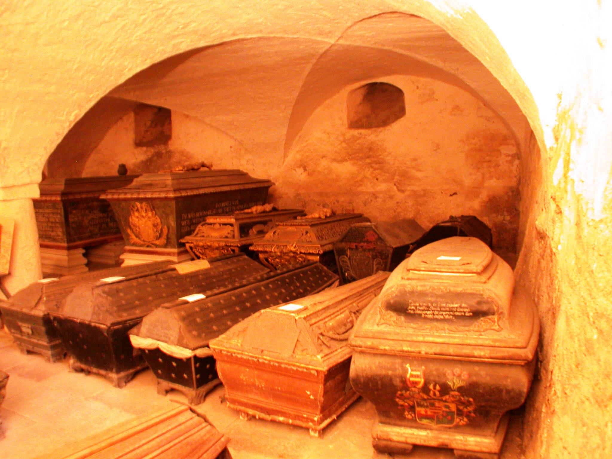 Coffins in the Sätuna grave vault/catacomb, Björklinge church, Uppsala, Sweden. Photo by Riggwelter, July 16, 2006.